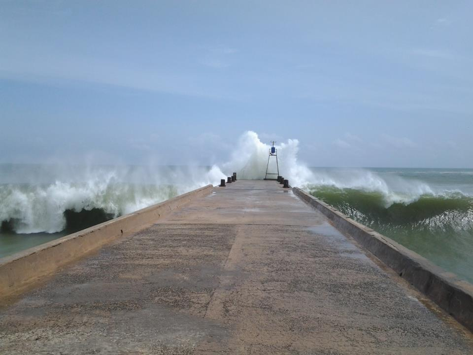 Colachel